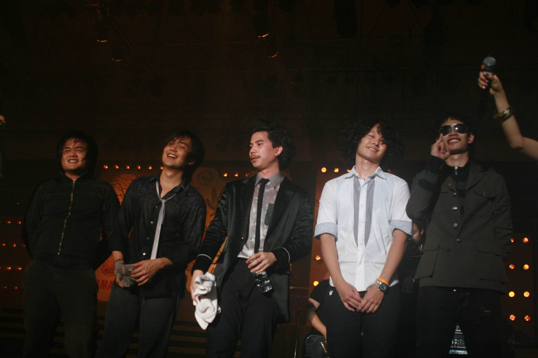 Thai band Slot Machine (สล็อต แมชชีน) at the Pattaya International Music Festival 2007. Original description: "งานพัทยา มิวสิก เฟสติวัล 2007."